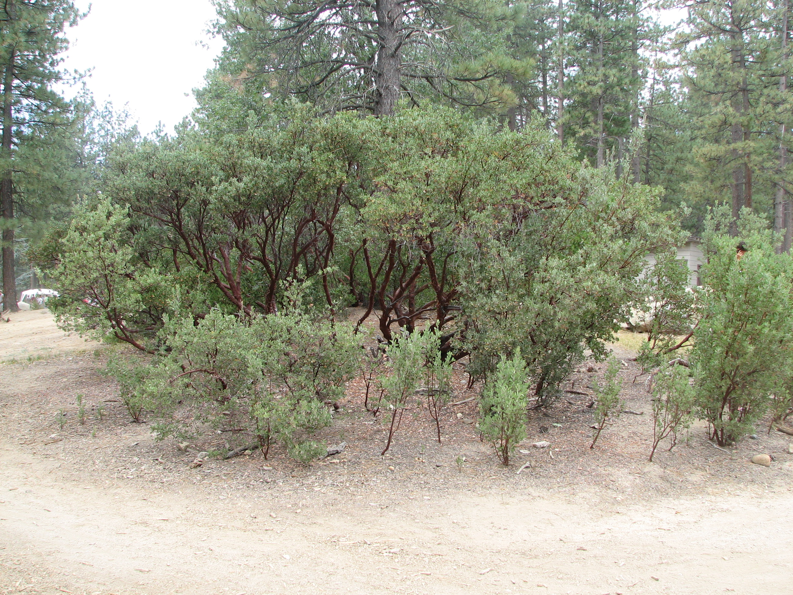 Manzanita (Arctostaphylos sp.) shrubs, in Jeffrey Pine (Pinus jeffreyi) forest. In the San Jacinto Mountains, near Idyllwild, Riverside County, Southern California. Example of southern California mixed evergreen forest habitat.